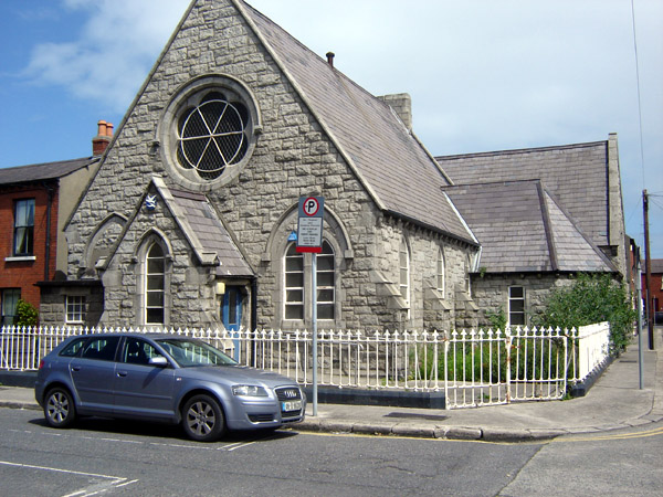 Photograph of the old Moravian church in Portobello, Dublin.